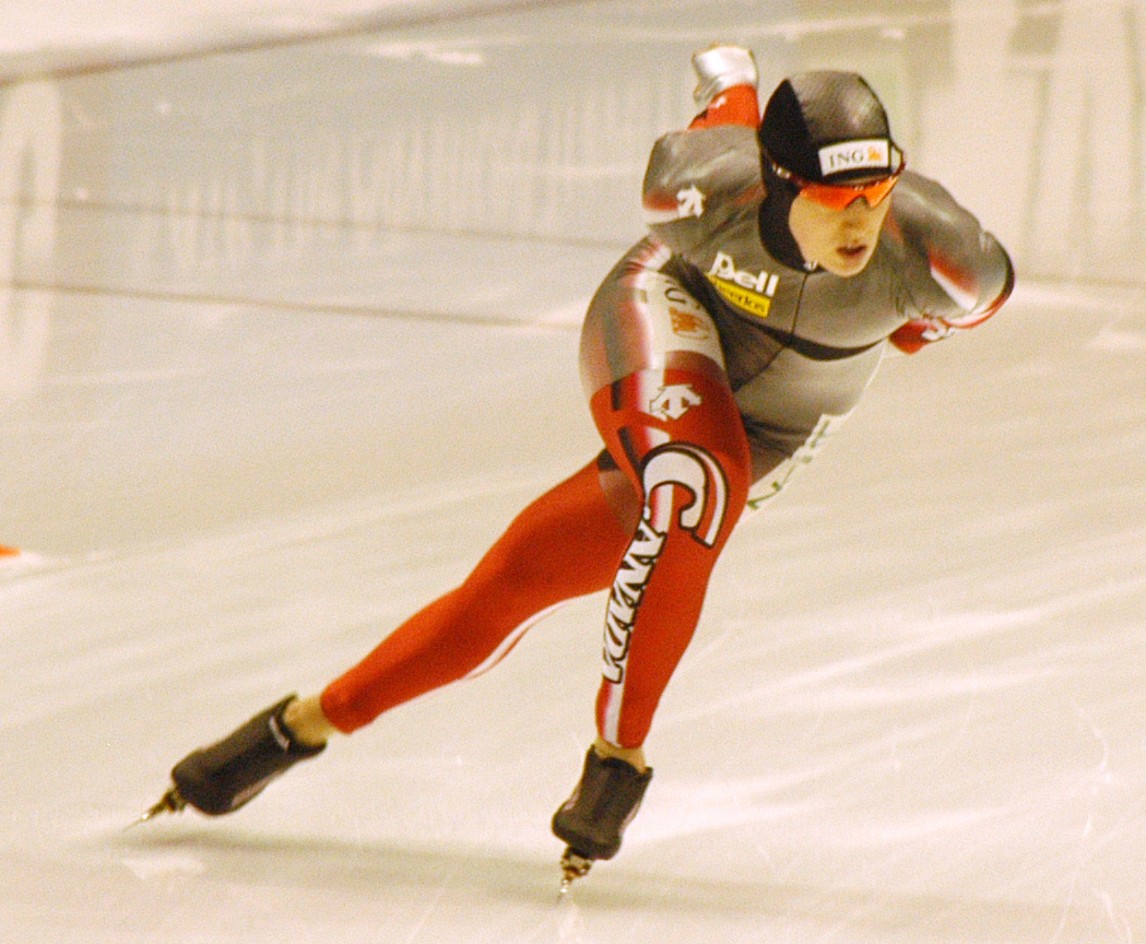 Brittany Schussler (CAN) during a 1500 meters world cup speedskating race in Heerenveen, the Netherlands.